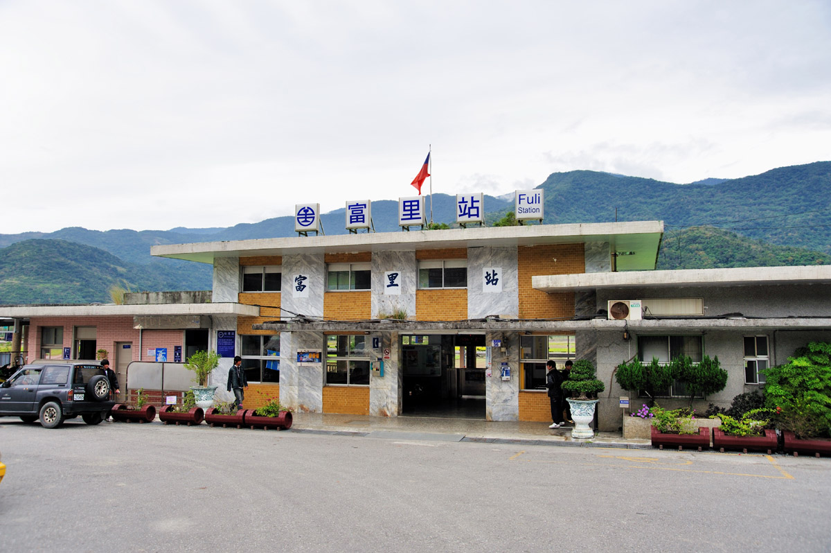 Taiwan Railway Administration FuLi Station